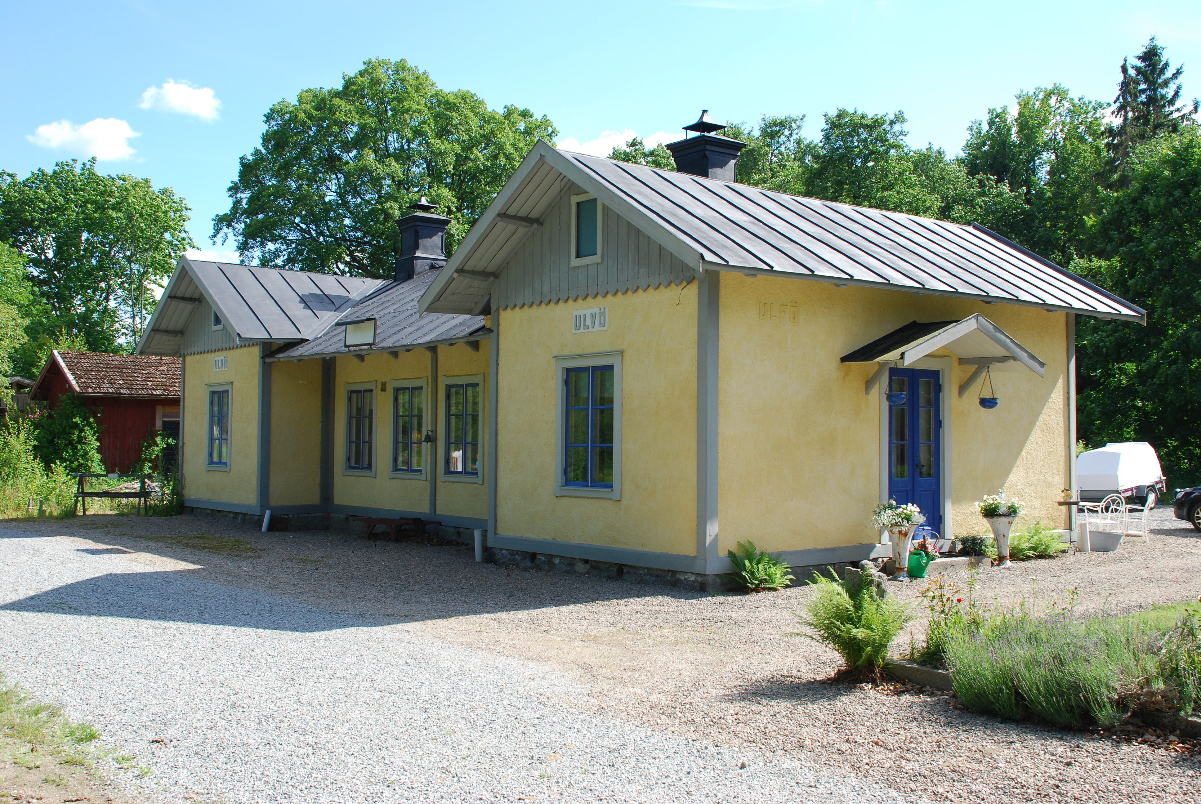 Ulvö railway station, at a former narrow-gauge railway line